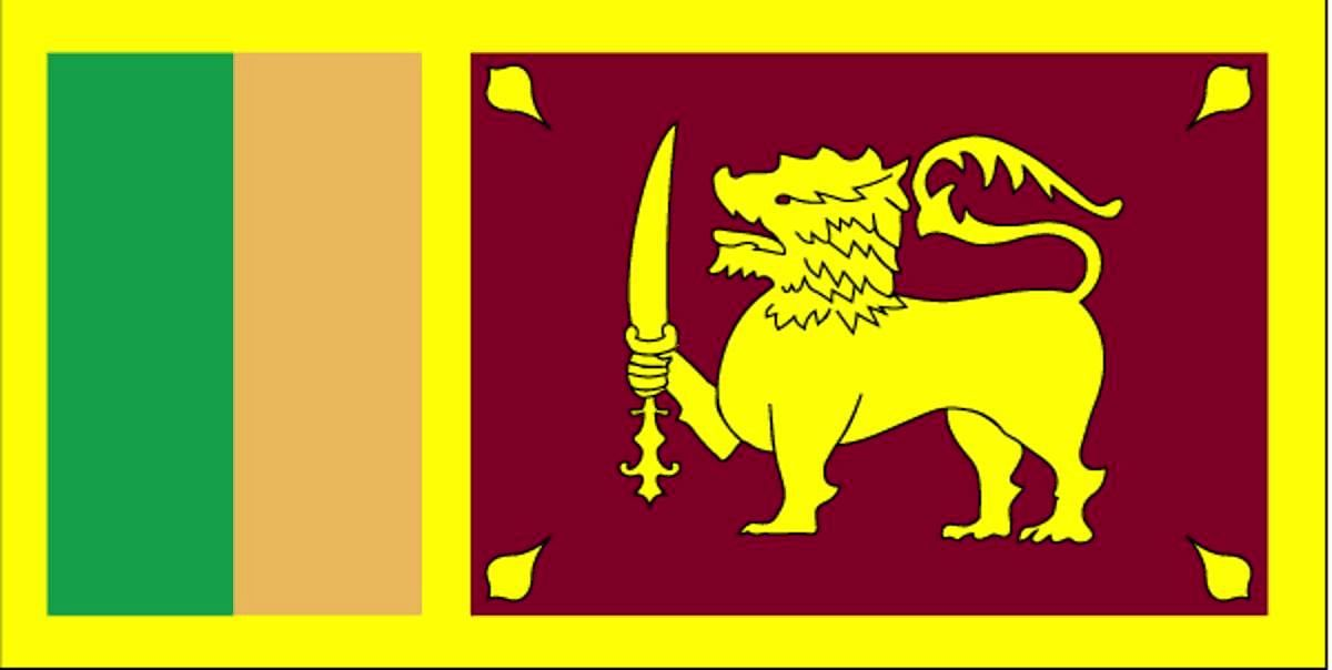 Image title: Flag of Sri Lanka Image from Public domain images website